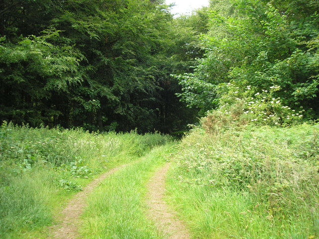 Pathway into Binning Wood The view from the gate at the main road of one of the pathways into Binning Wood.